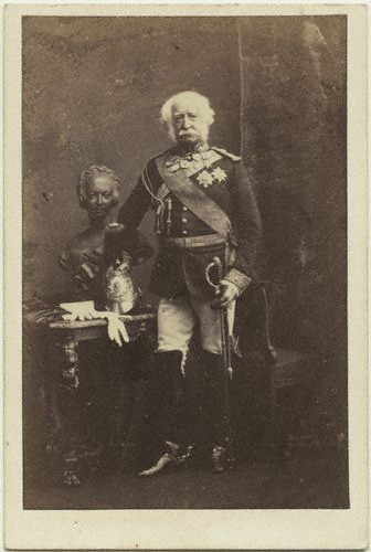 An albumen carte-de-visite of Hugh Gough, 1st Viscount Gough.